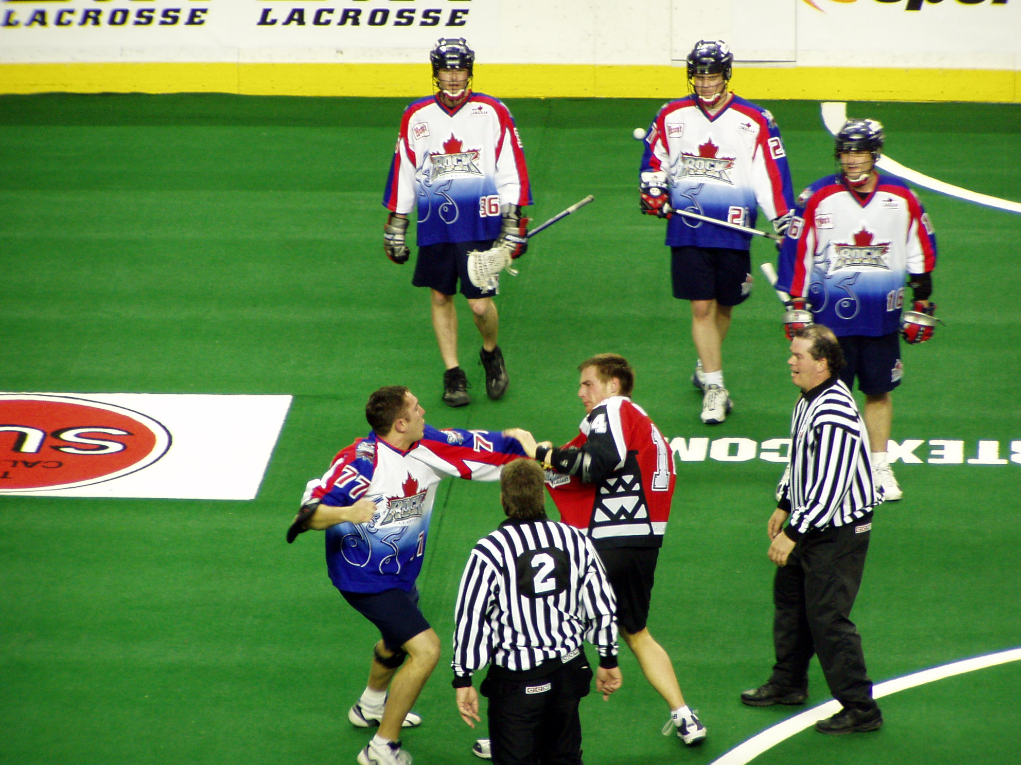 Fight between Jeff Moleski of the Calgary Roughnecks (right; red and black uniform) and Tim O'Brien of the Toronto Rock (left; blue and red uniform) at the Pengrowth Saddledome, April 17, 2005